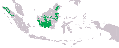 Range of the two orangutan species.